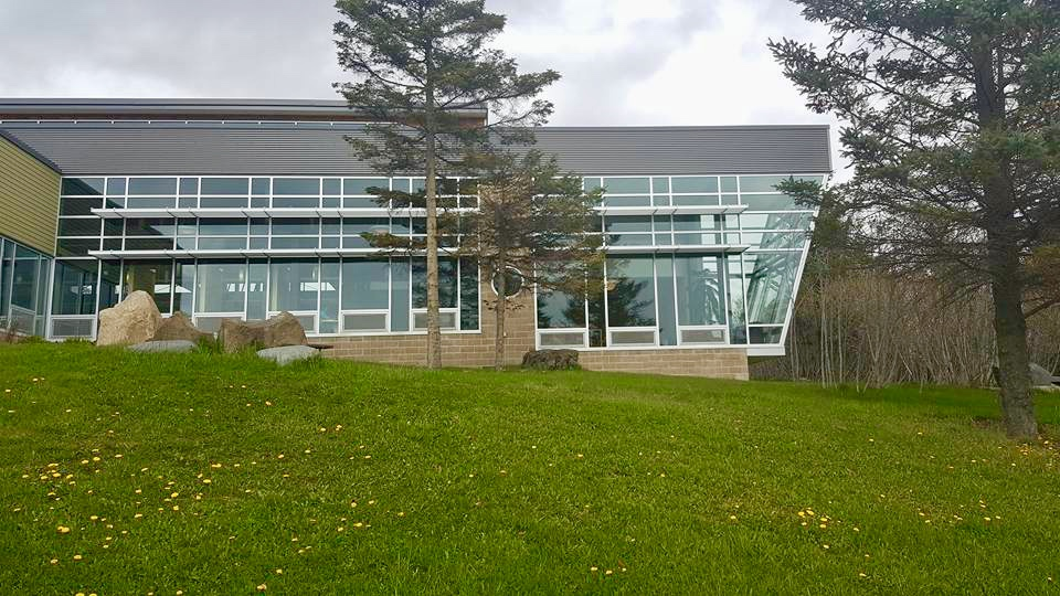 Exterior shot of reading rooms at Homer Public Library, Homer, Alaska